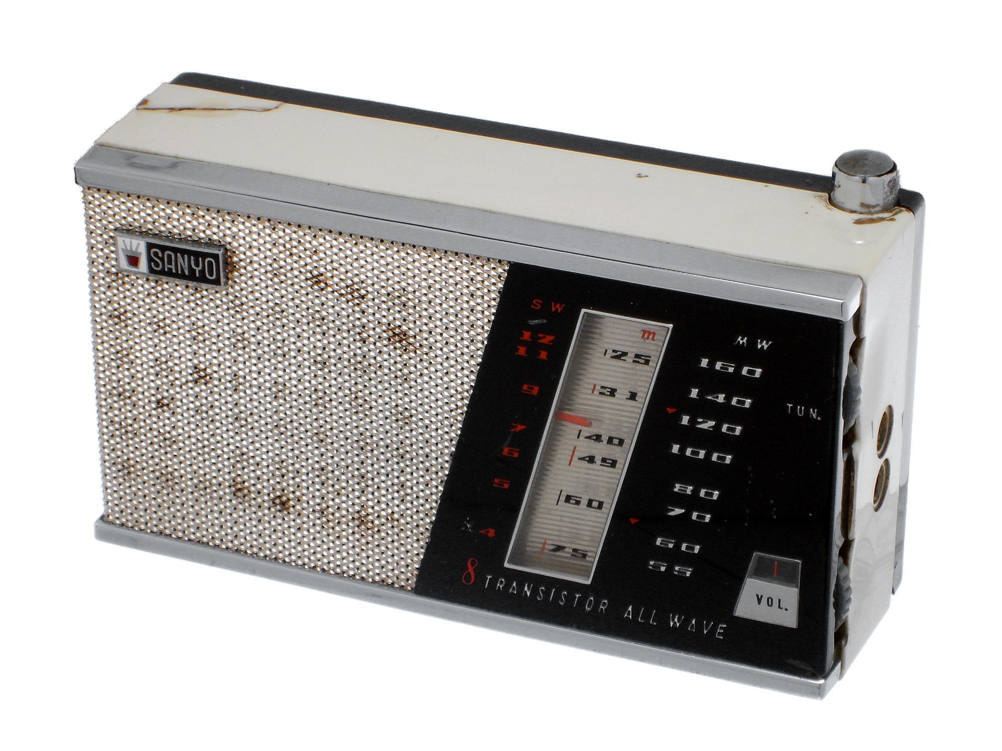 Sanyo transistor radio, model 8S-P3, from 1959. Equipped with manual tuning for two bands (MW and SW), volume control, and headphone jack on the right side. Has a built-in metallic antenna, with the option of connecting an external antenna on the left side. Made of plastic and metal. It included a brown leather carrying case. Technical data Reception frequencies: 535-1605 KHz and 3.9-12 MHz. IF: 455 KHz. Uses a Sanyo BL-104 6 volt battery, or four AA batteries. 14.7 cm long by 8 cm high by 4.5 cm deep. Made in Japan.